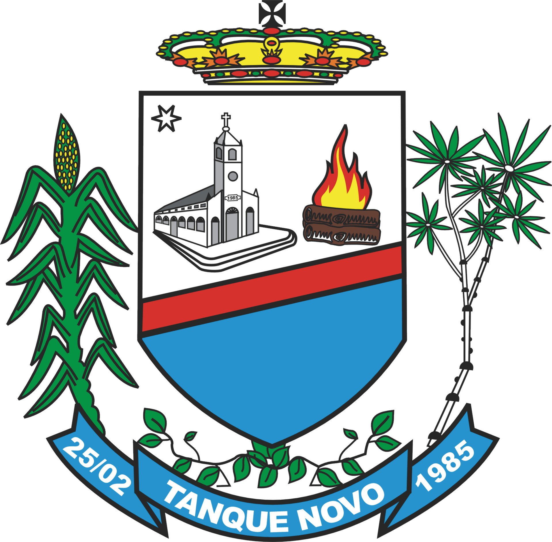 Coat of Arms from Tanque Novo, brazilian municipality of Bahia